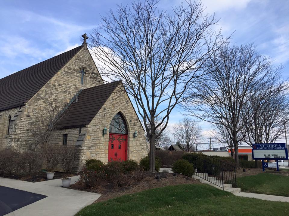 St. Lukes Church in Fifth by Northwest